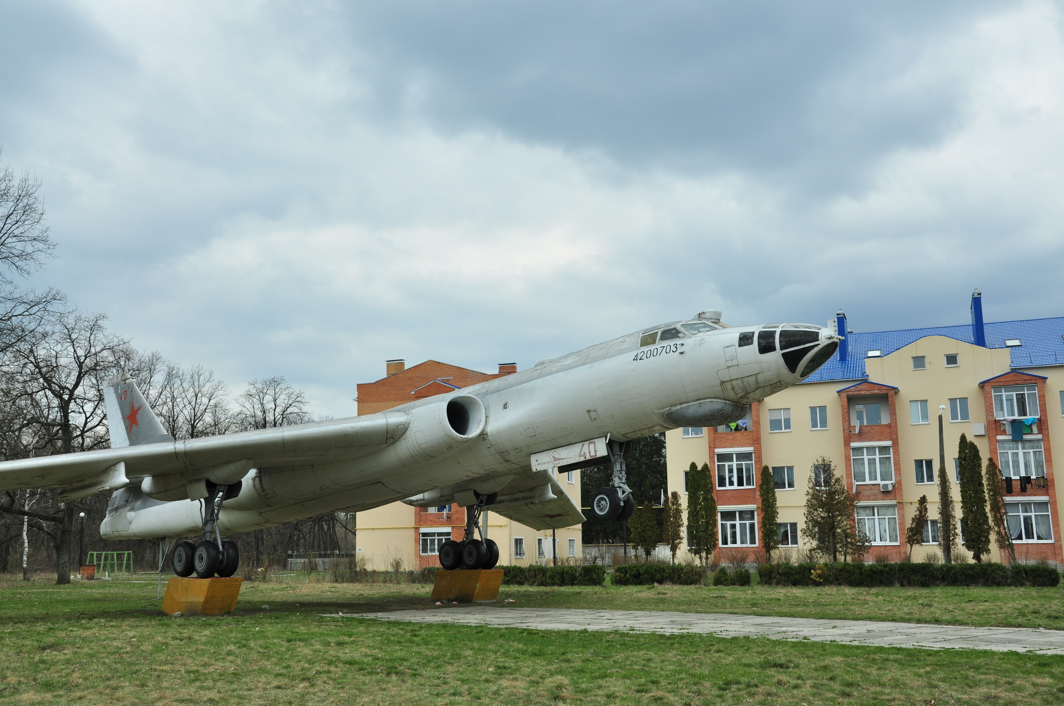 Tu-16, Bila Tserkva, Ukraine